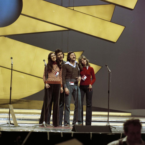 Brotherhood of Man at a rehearsal for the Eurovision Song Contest 1976.